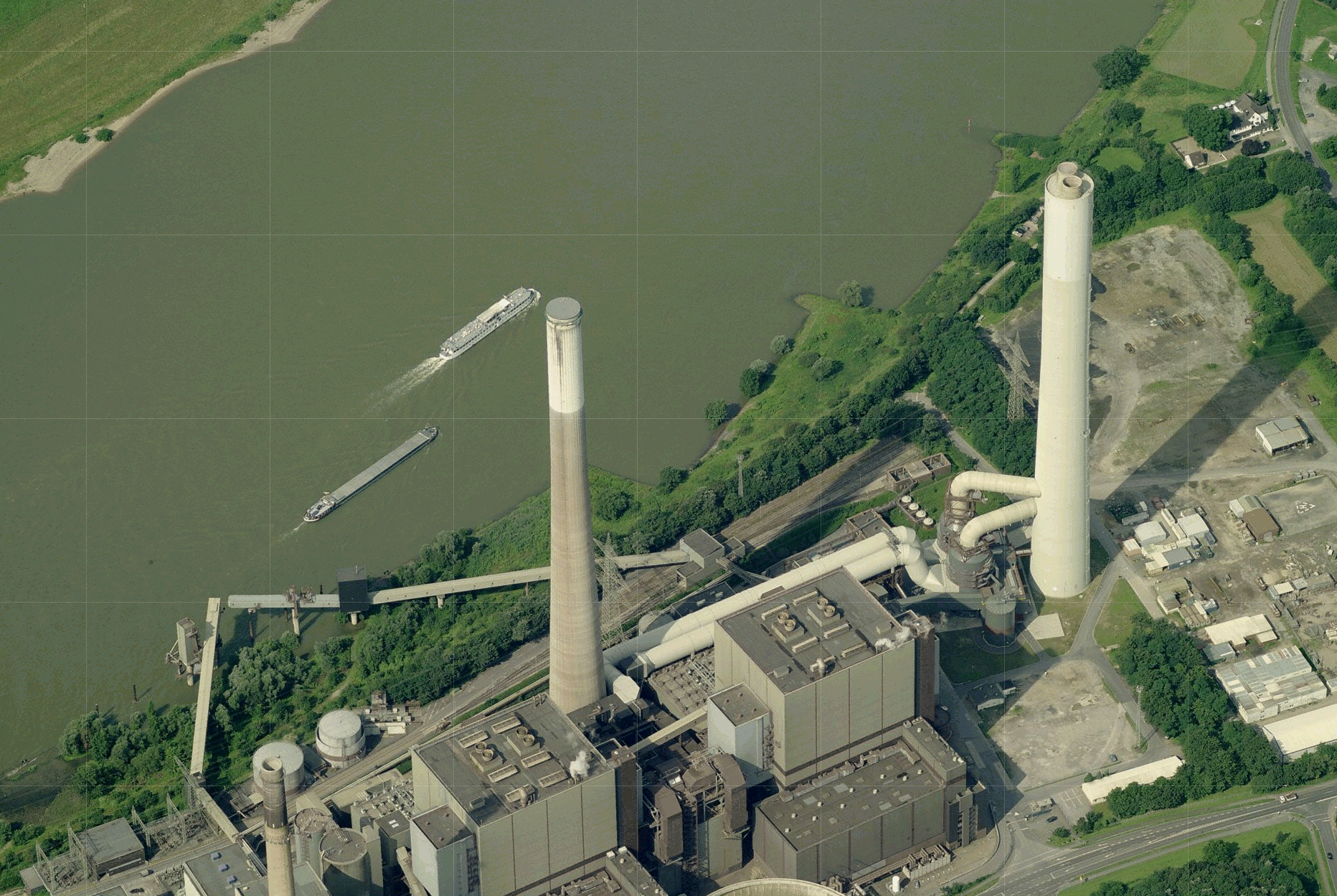 power station voerde